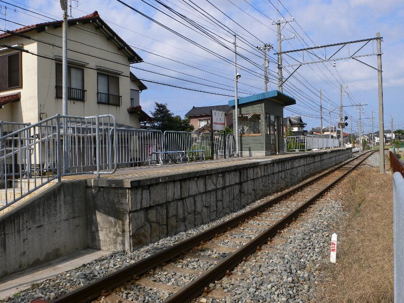 Kitama St., Hokuriku Railroad, Ishikawa, Japan.